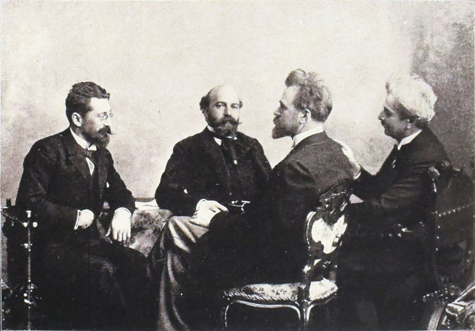 The Hubay-Popper Quartett (The Budapest Quartett): Josef Waldbauer, Victor von Herzfeld, Jenő Hubay, David Popper.